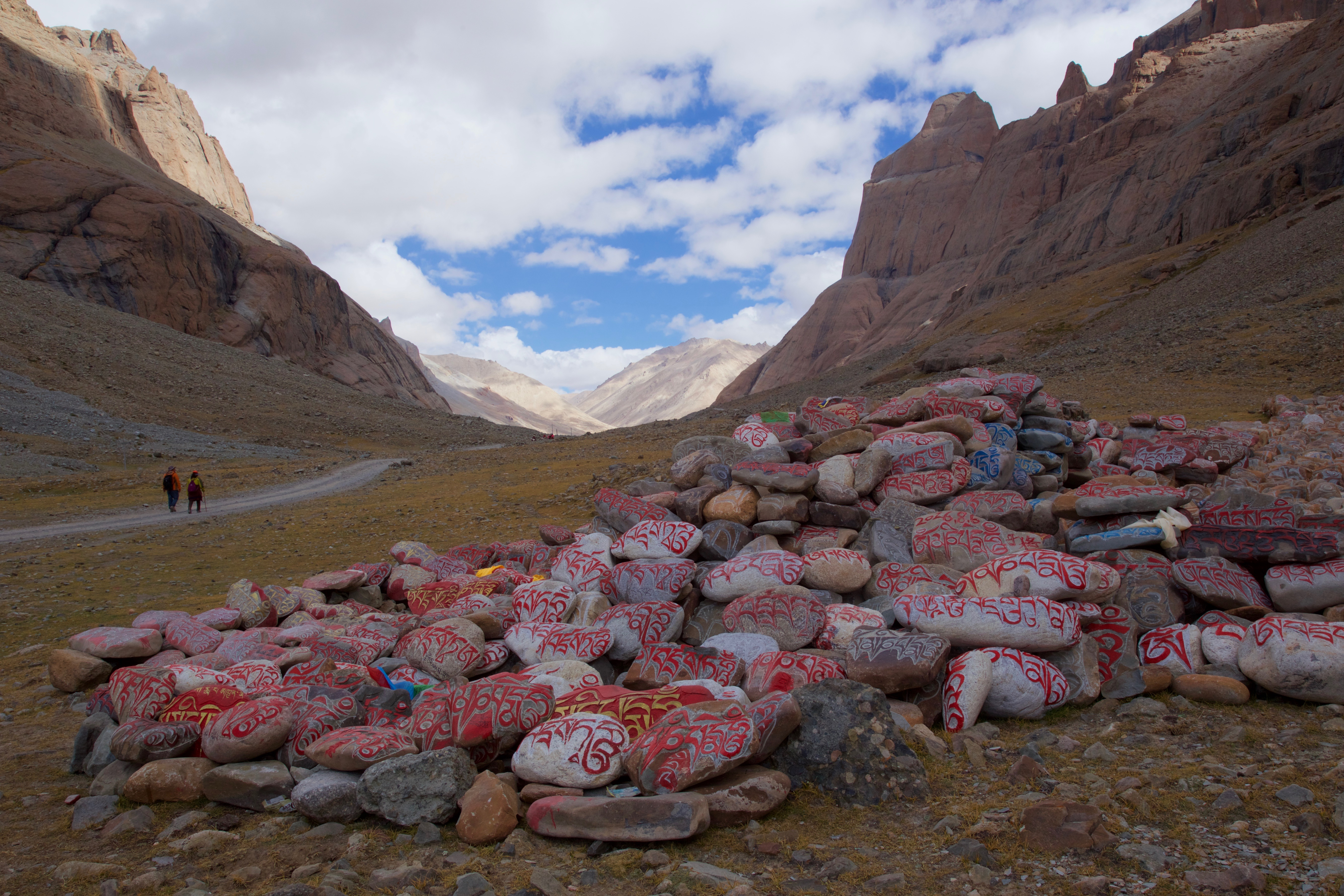 Mani stones on the Kailash kora.